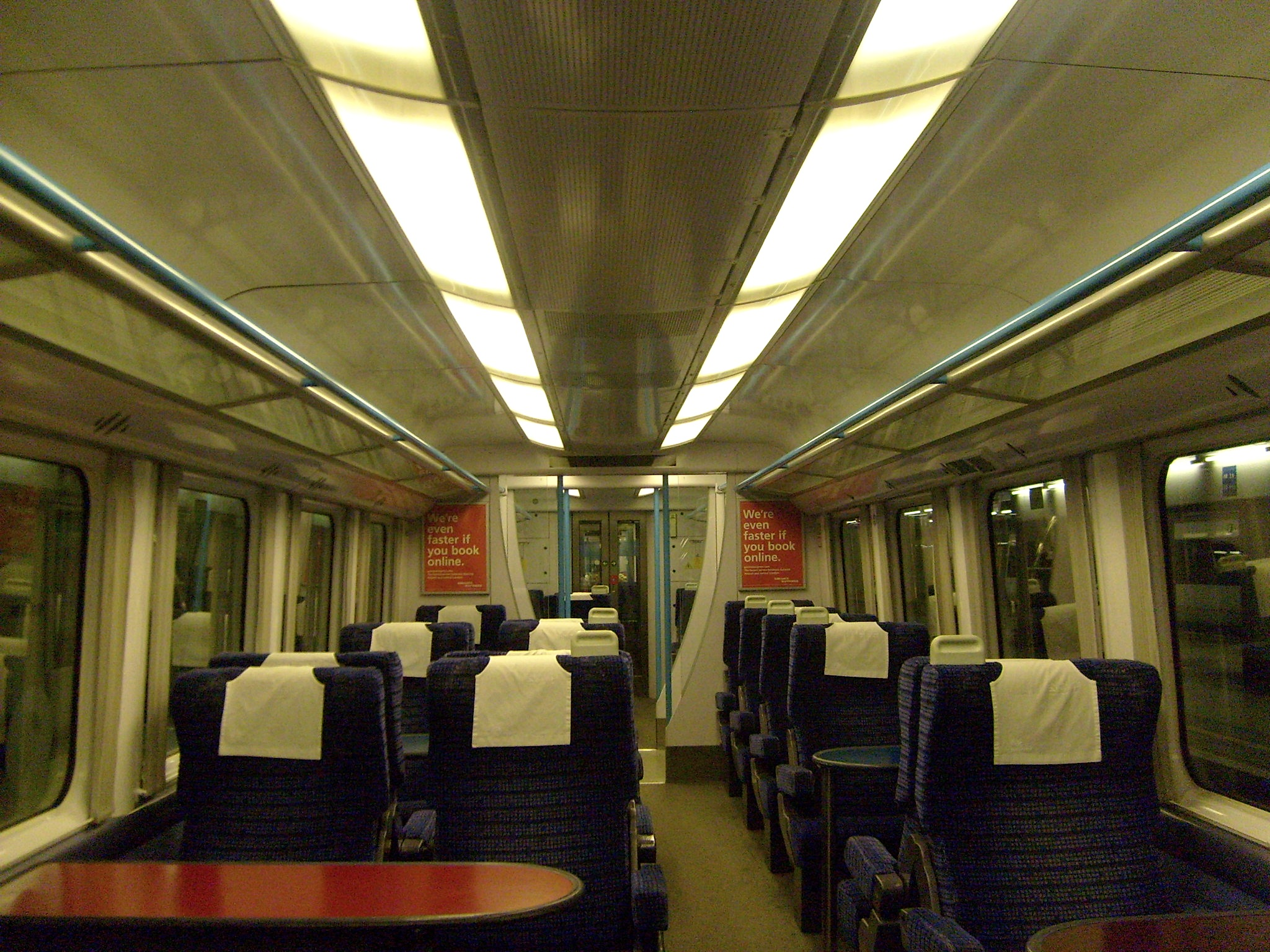 The interior of First Class saloon aboard the Gatwick Express Class 460 EMU.